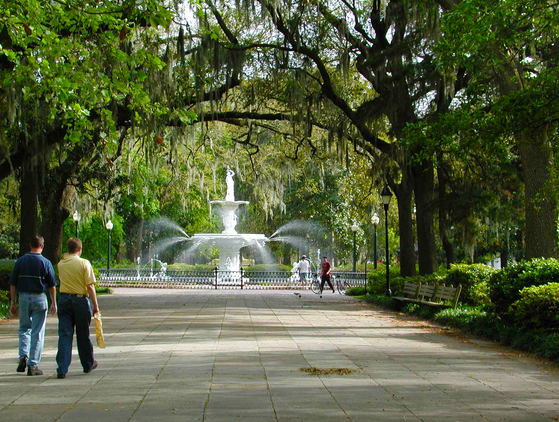 This picture shows one of Savannah's many urban parks